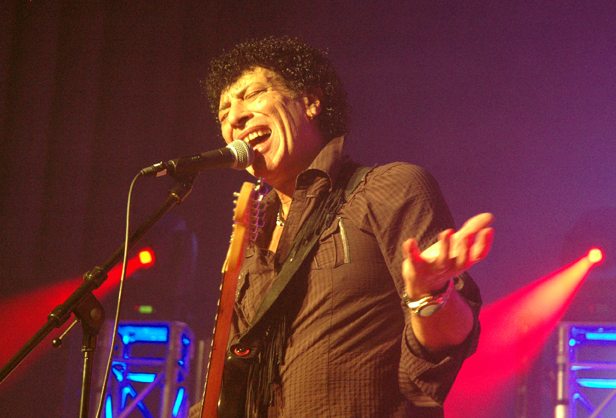 Ray Dorset live at Zürisee-Festival in Switzerland 2013, Erlenbach